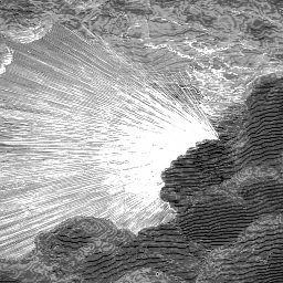 The Creation of Light (Gen. 1:1-5)